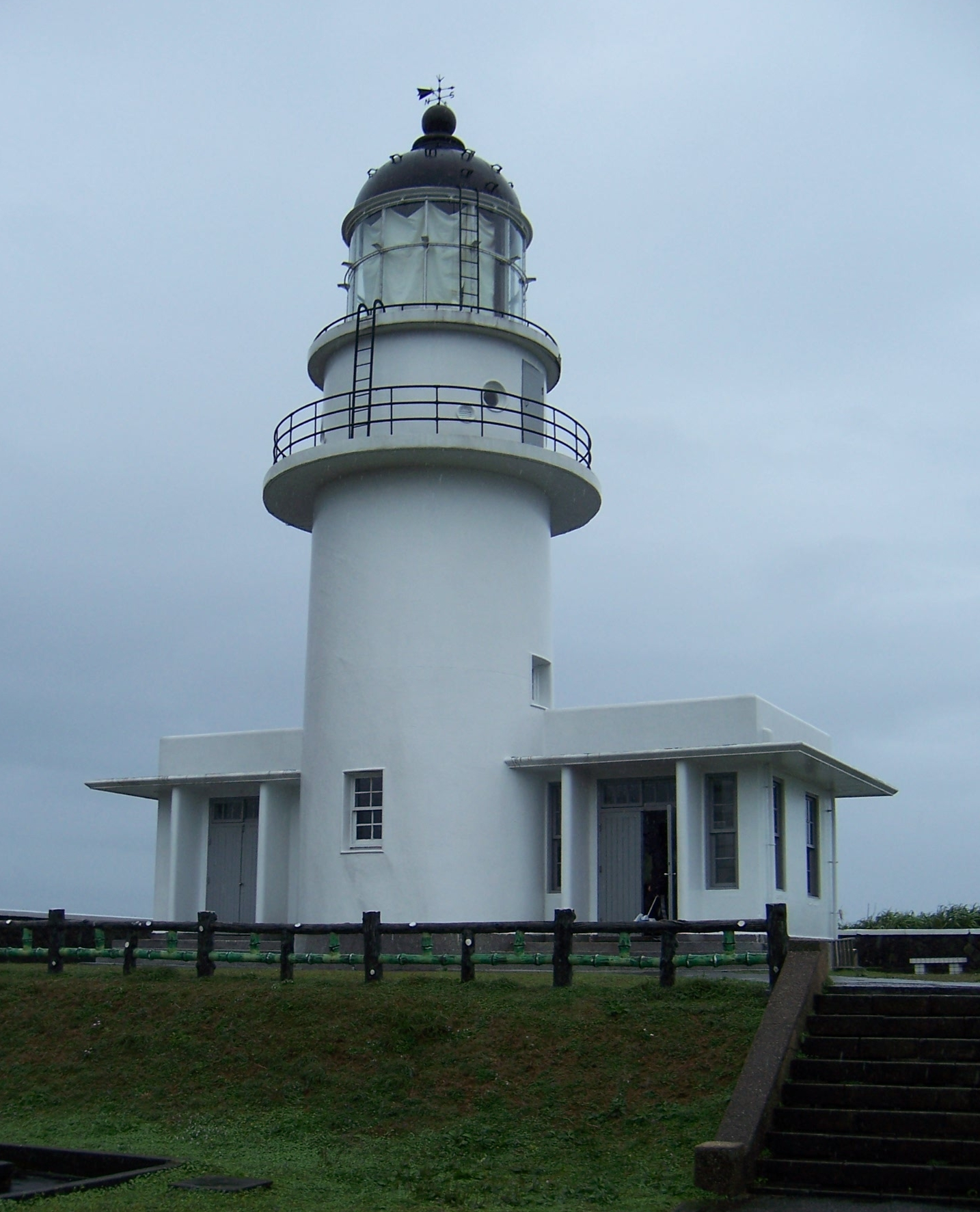 Sandiaojiao(also called Cape of San Diego) Lighthouse,Gongliao Townshgip,Taipei County,Taiwan(R.O.C.)